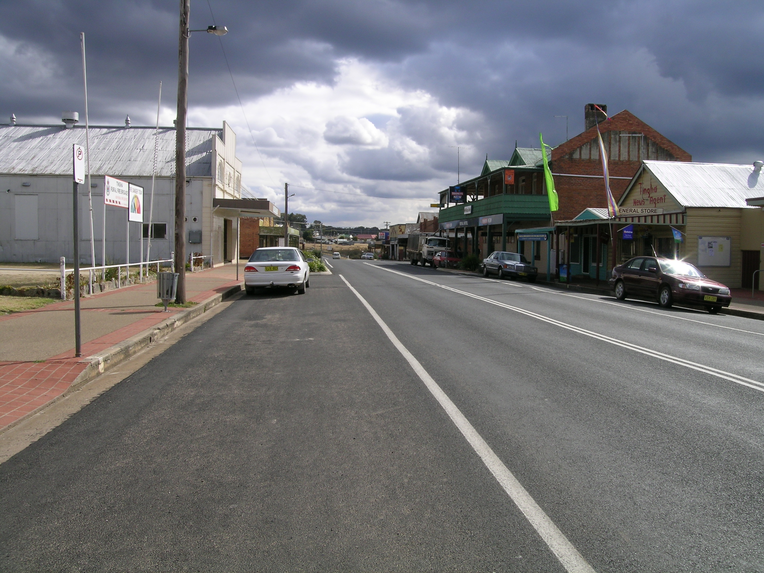 Main stree, Tingha, NSW